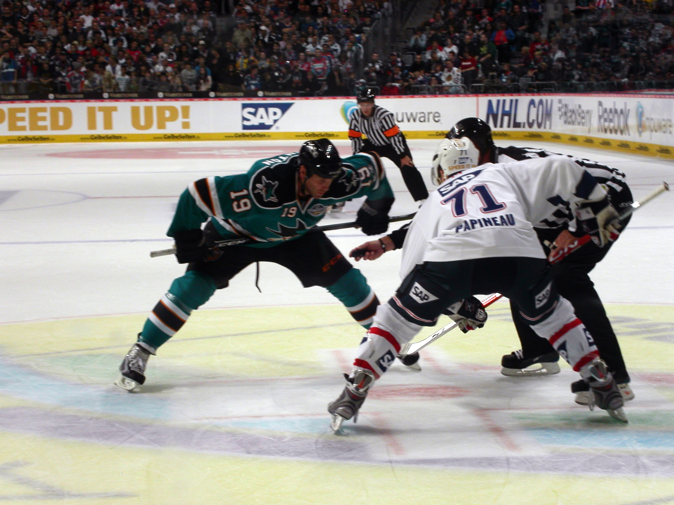 Justin Papineau, Ice hockey player from Canada, Adler Mannheim and Joe Thornton, Ice hockey player from Canada, San Jose Sharks